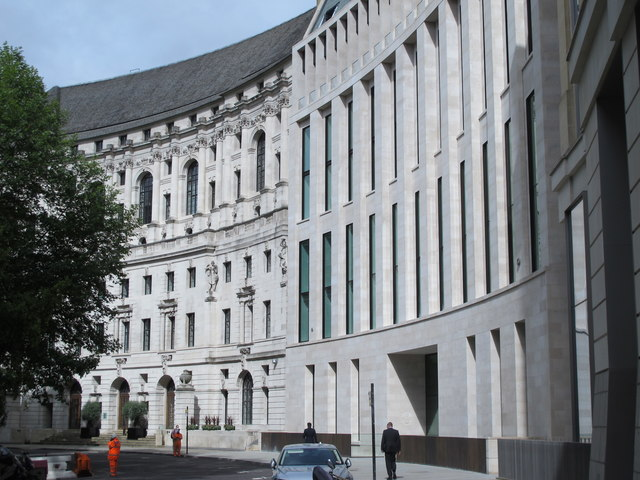 8 Finsbury Circus, EC2